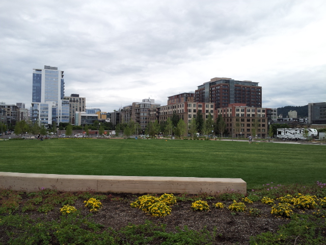 The Fields Park, Portland, Oregon (2013)